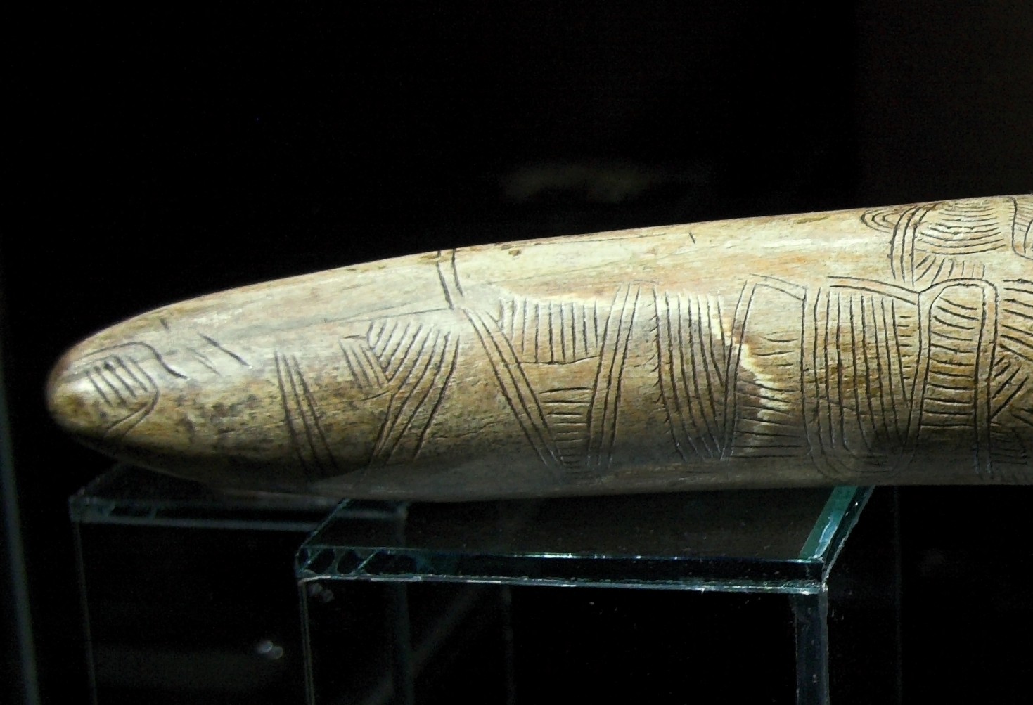 Engraving on a mammoth tusk perhaps representing a “map”, Pavlov (Břeclav DIstrict, Southern Moravia, Chech Republic), deposited in ArÚ AVČR Brno. Gravettian. Original. Length 37 cm. Temporary exhibition the Mammoth hunters in the NM Prague.